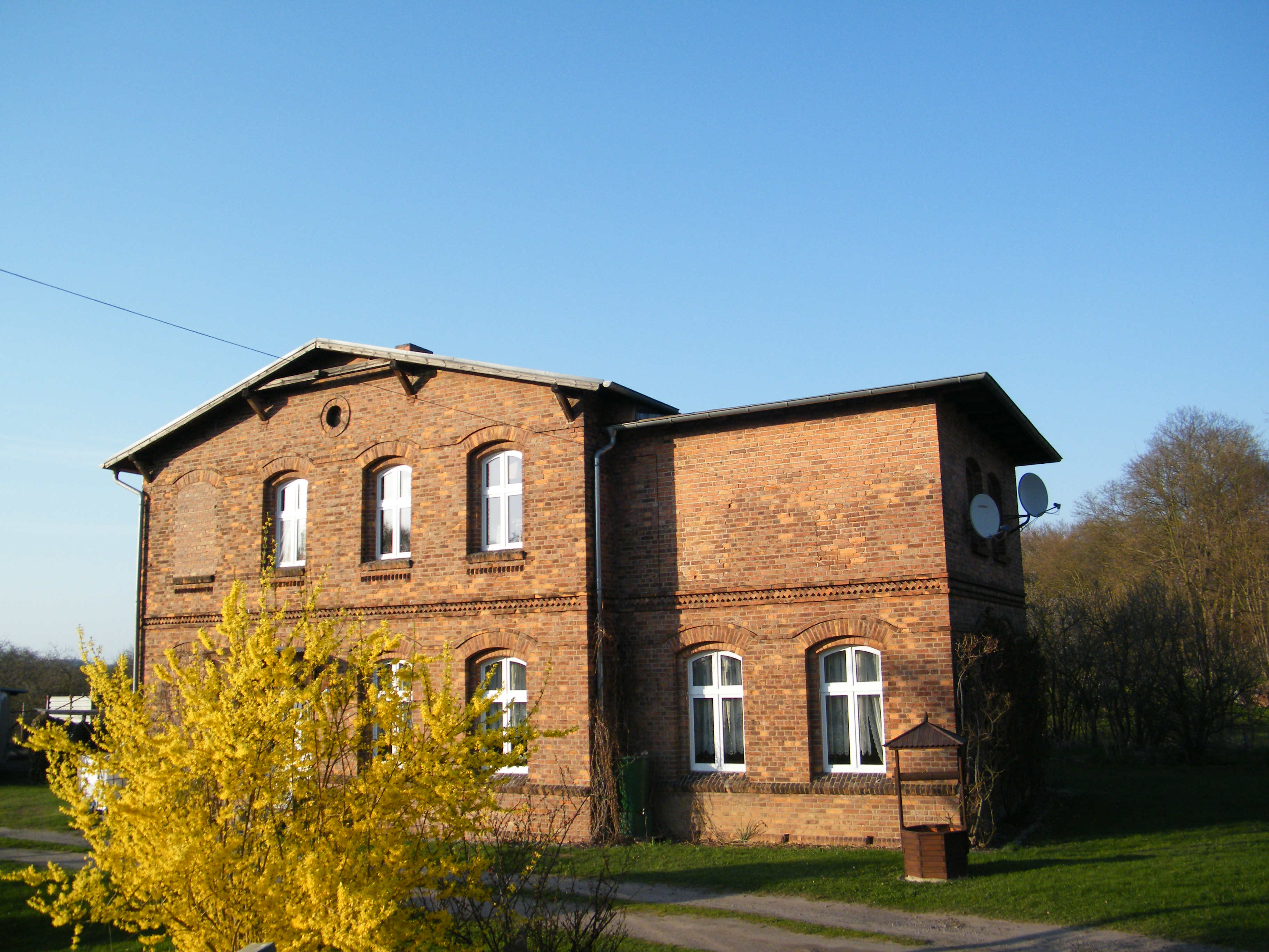 Former station building of Schönermark-Dammer Kreisbahn in Schönermark, near Angermünde, Germany